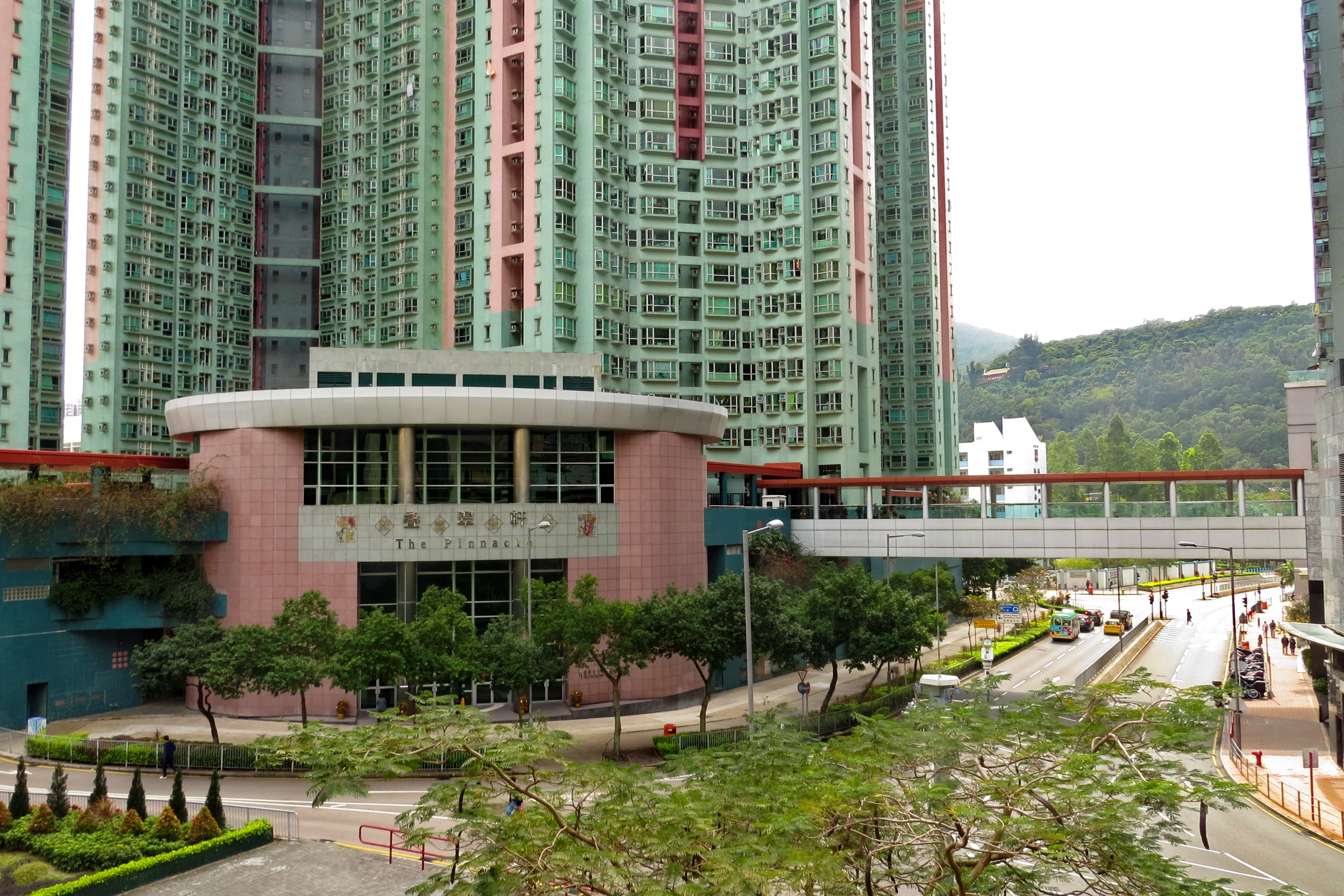 The Pinnacle, Po Lam, Hong Kong.